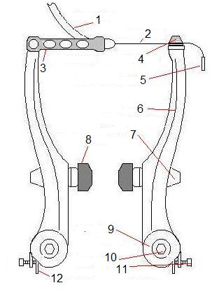 Drawing of V-Brakes